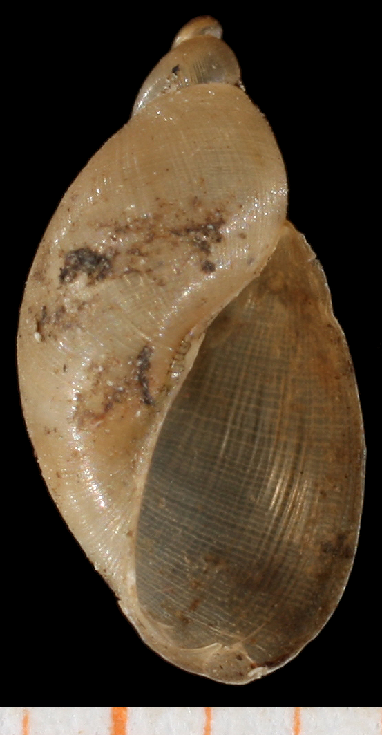 Photo of the shell of Pseudosuccinea columella. Scale in mm. Locality: Germany: Berlin-Dahlem. Date: 02-1953.